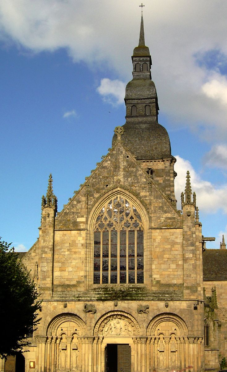 Basilica Saint-Sauveur in Dinan - Photo personnally taken in August 2004 and published by french user Luna04 in the french wikipedia